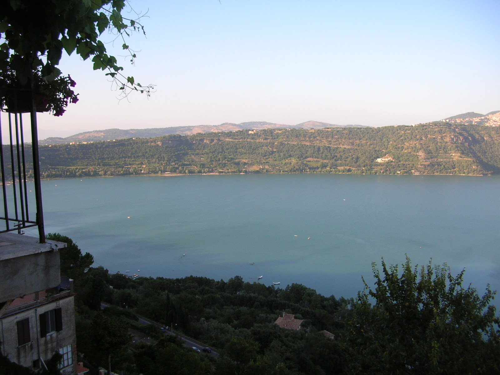 Una foto panoramica del Lago Albano dal paese di Castelgandolfo, Roma. Panoramic view of the Albano Lake in Castelgandolfo, Rome, Italy. Own work, summer 2005.